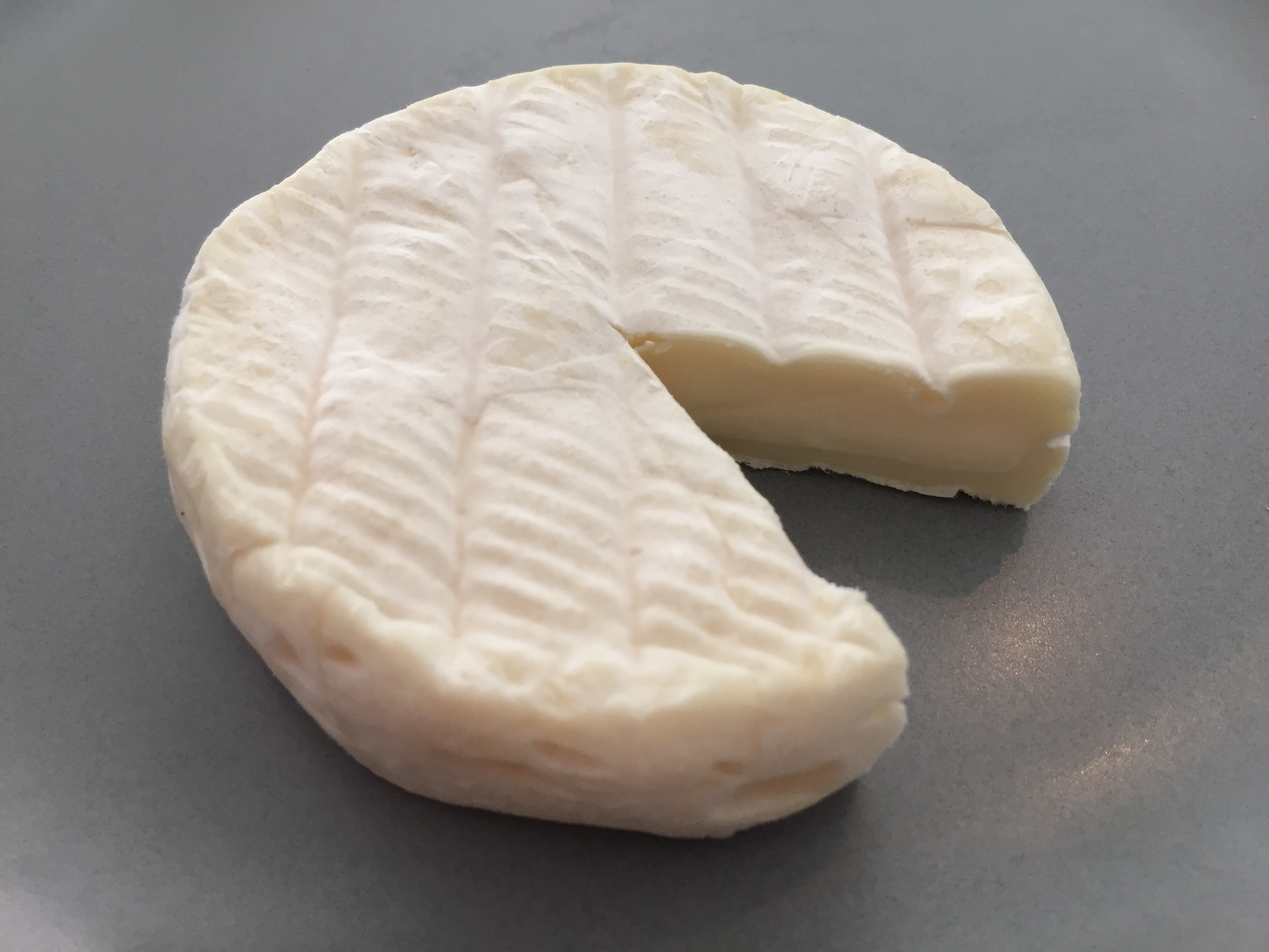 Cheese Pérail (openfoodfacts).